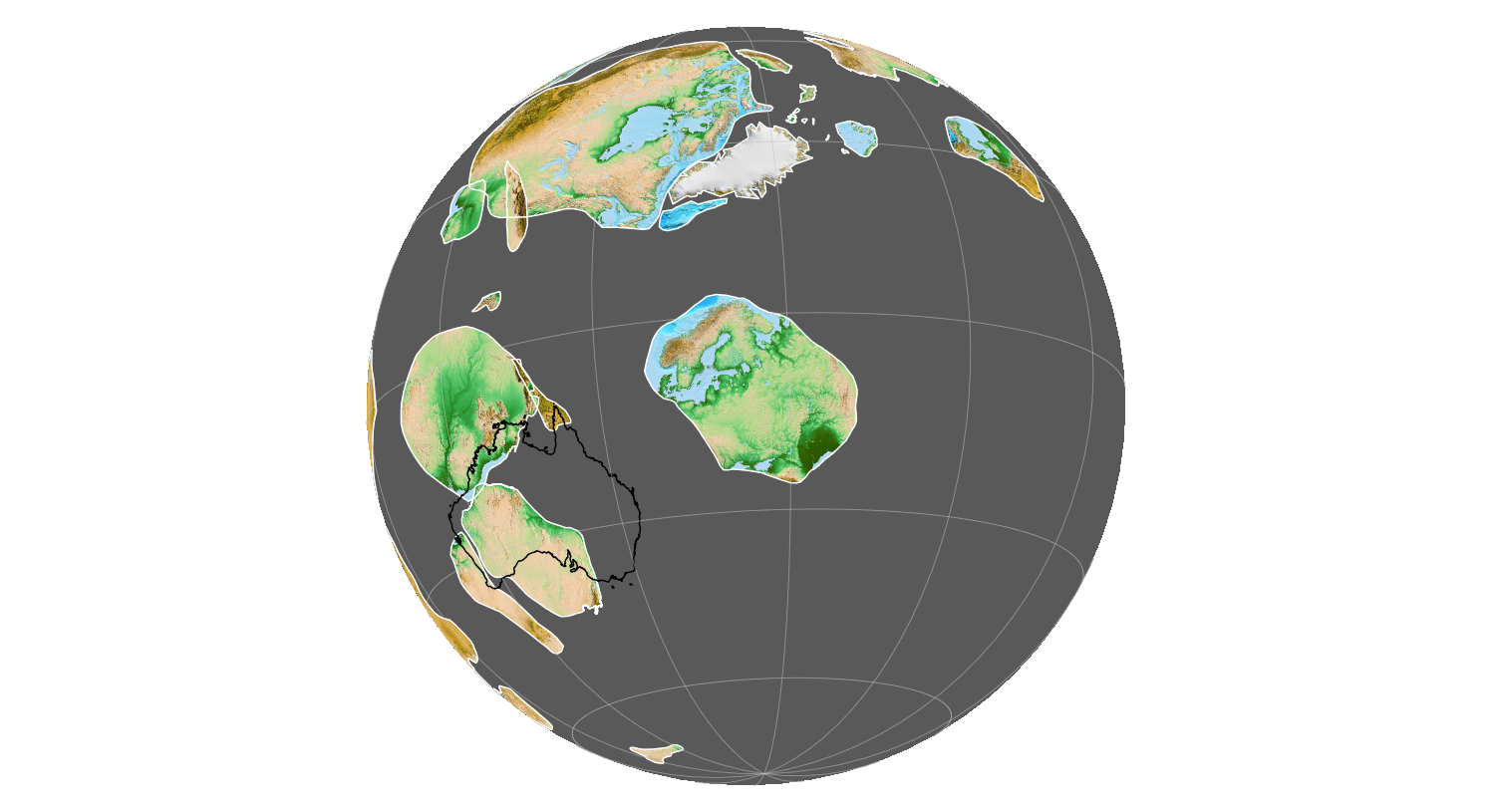 Location of Baltica at 1100 Ma. Current location of Australia added for reference. Made in GPlates using data sets described below.